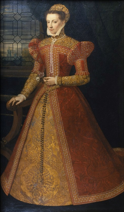 Portrait of a royal lady traditionally identified with Mary, Queen of Scots.